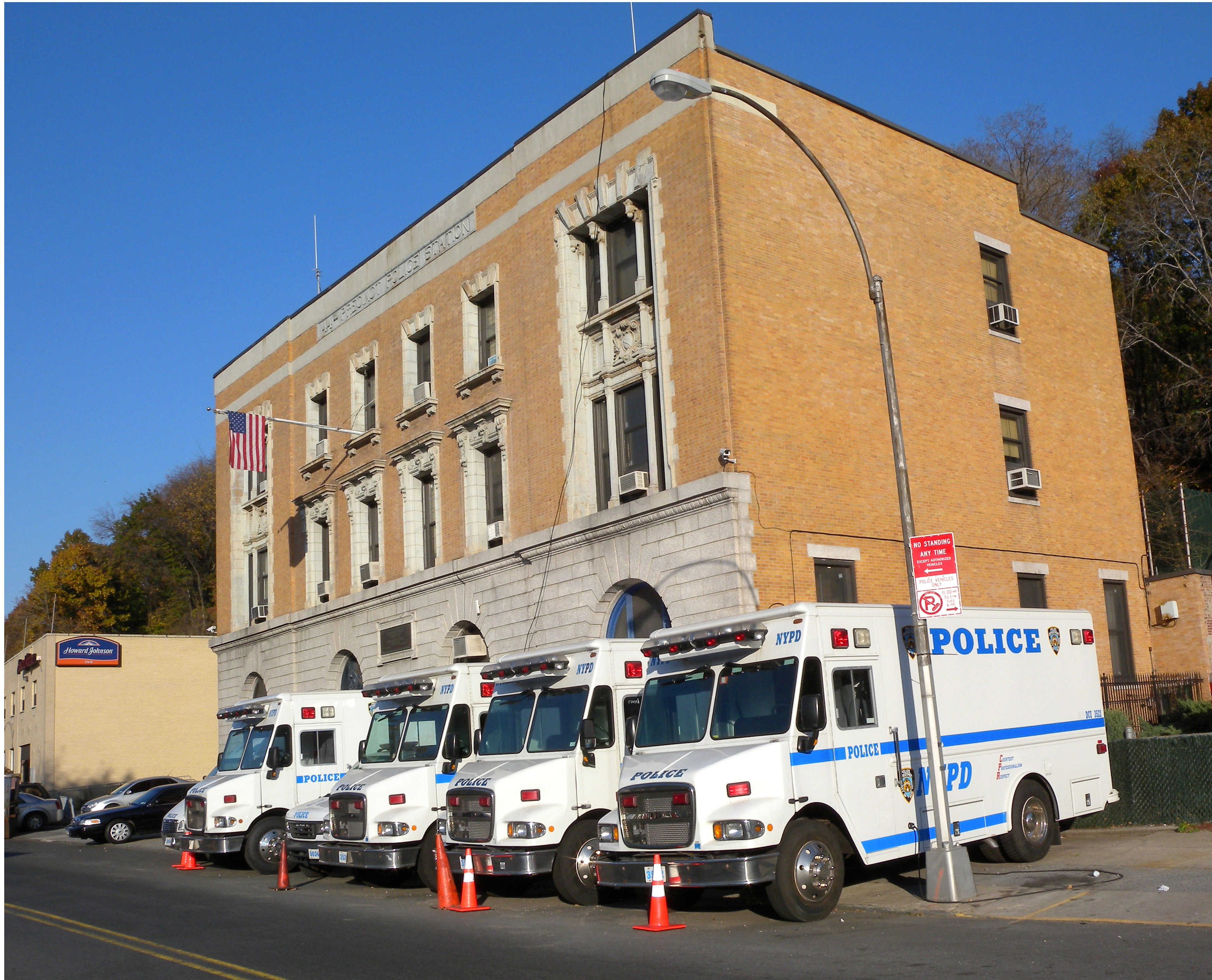 Looking northeast across Sedgwick Avenue at former 44th Precinct house, now HQ of Bronx Task Force, NYPD on a sunny November afternoon. EXIF says September due to photographer's error.